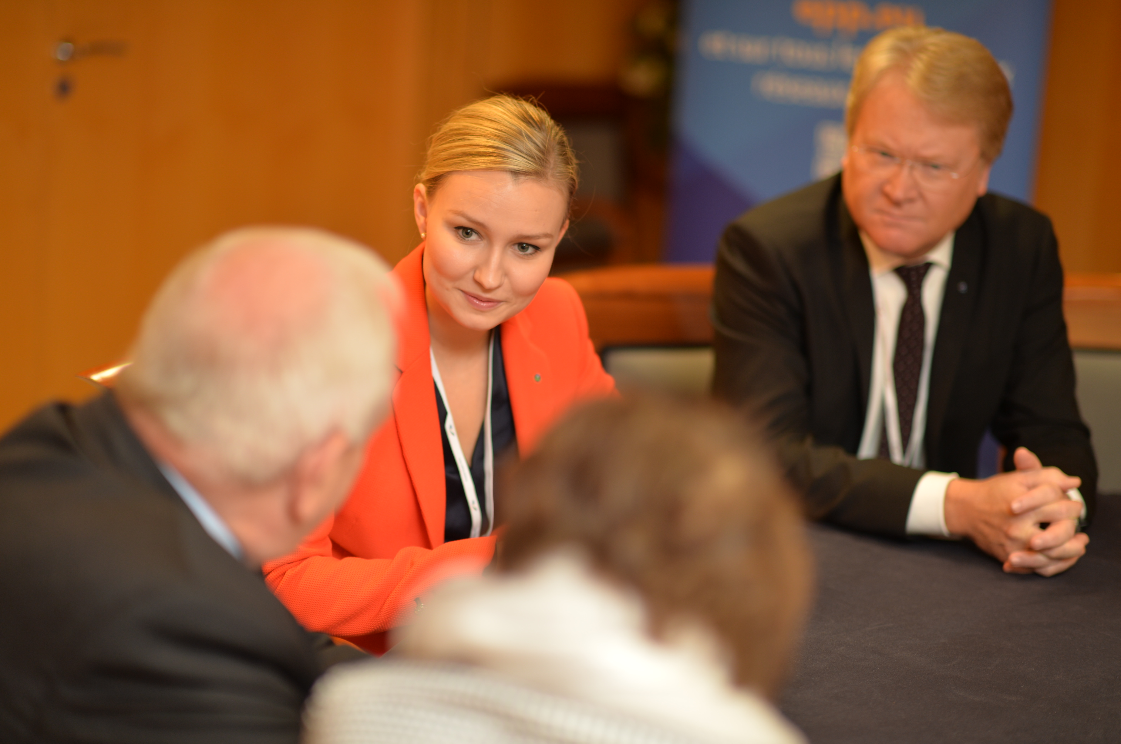 EPP Congress Madrid - 22 October